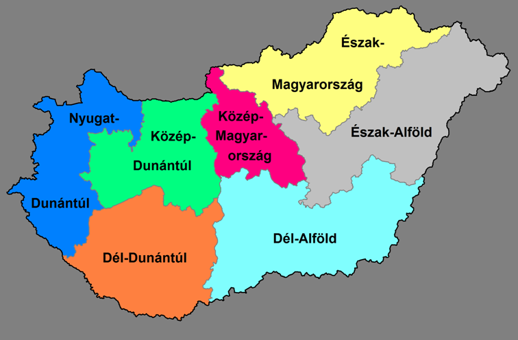 Hungary, regions (NUTS 2 level)